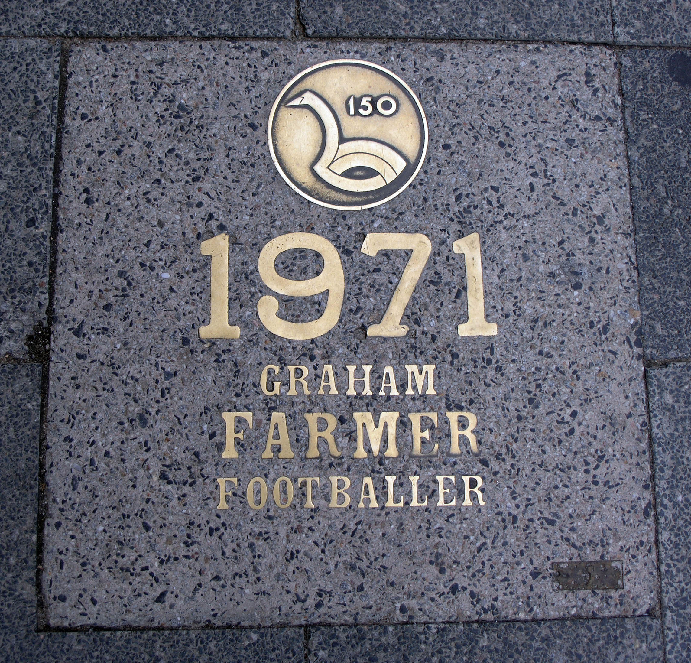 Bronze tablet commemorating notable figure in Western Australia's history